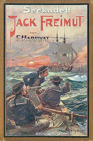 designed by Willy Stöwer book cover of Captain Marryat Midshipman Jack Freimut. For Youth edited by August Hermann. With 6 color printing images from Willy Stöwer. Second edition. Leipzig, publisher of Otto Spamer. (1902). The first edition published in 1899